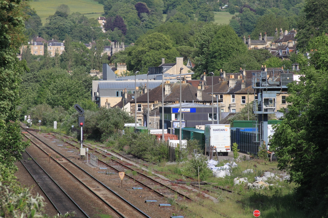 Situated east of Oldfield Park passenger station is Bath's goods station at Westmoreland Road. There is no rail traffic handled here at present, the last being containers of rubbish which were loaded onto trains using the grey portal crane which is partly hidden by the tree on the right.